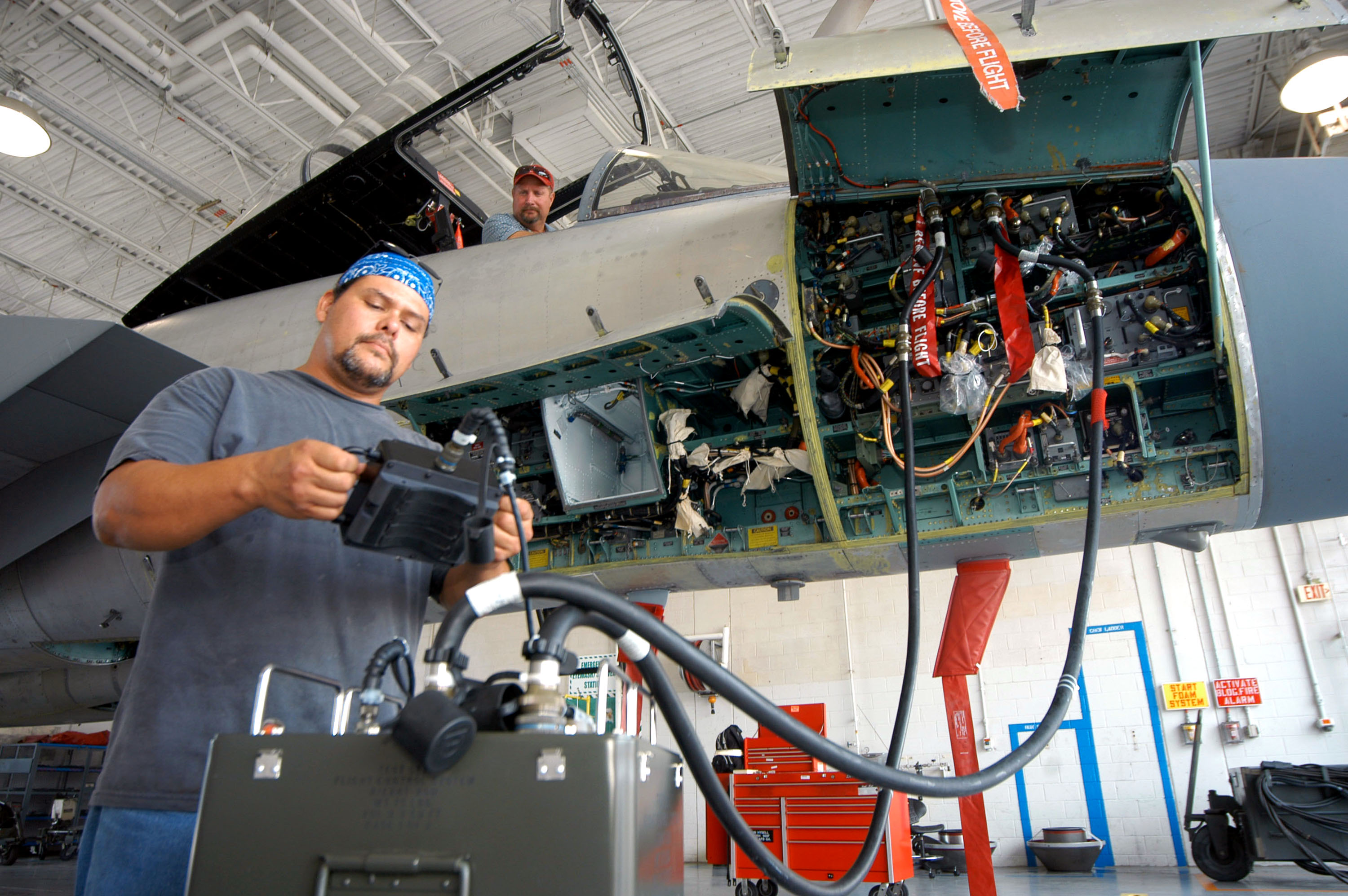 System test for the AN/APG-63 Radar